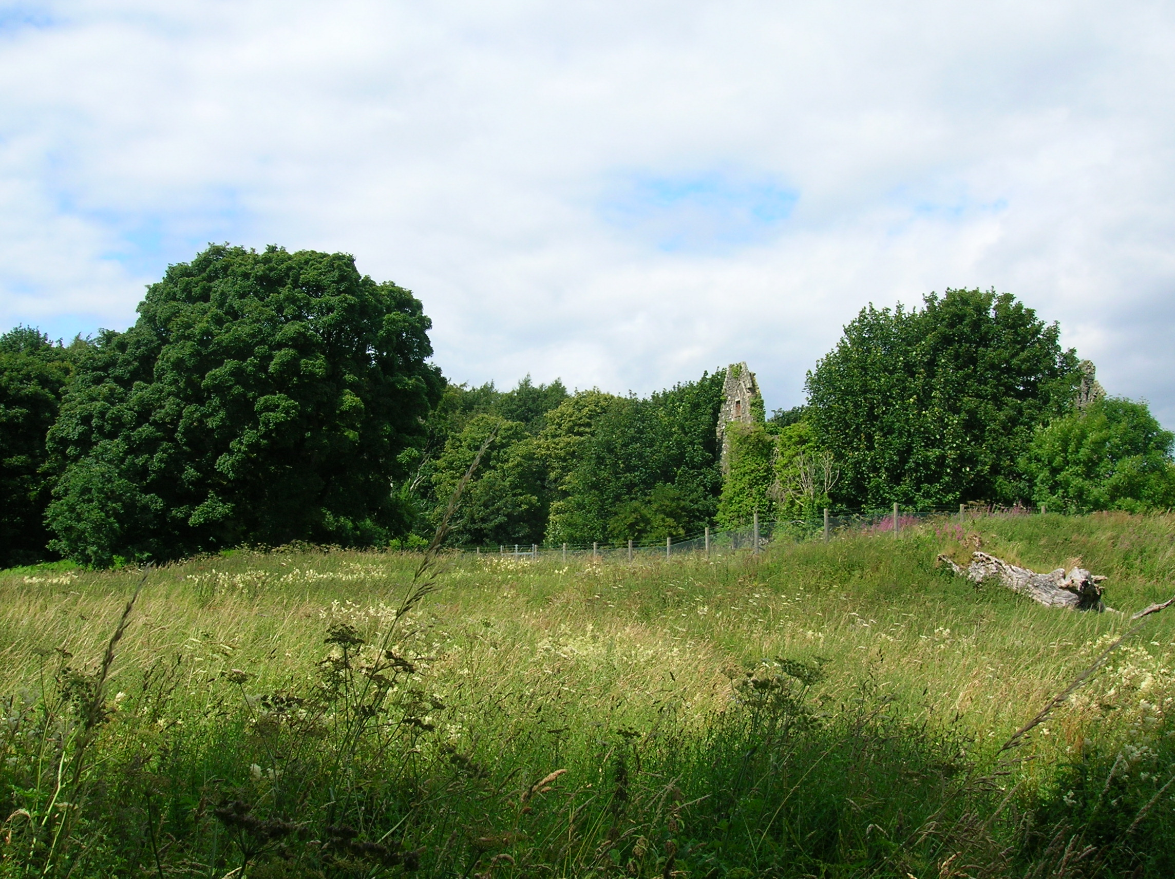 Auchans Castle from the gardens, East Ayrshire, Scotland